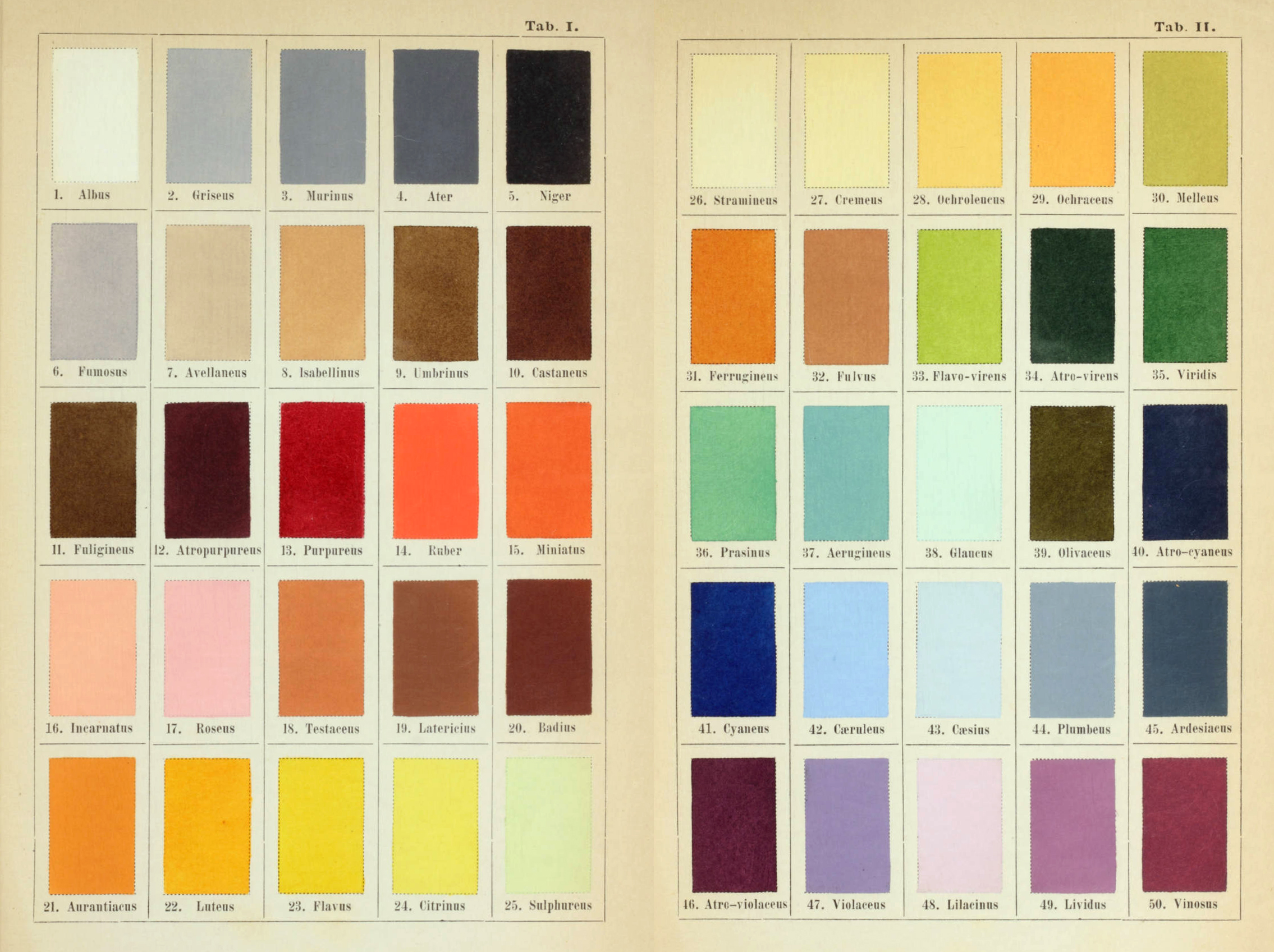 Pier Andrea Saccardo's 1894 chromotaxy scale, plates I and II from Chromotaxia, seu nomenclator colorum... ad usum botanicorum et zoologorum (in English, French, German, Italian, and Latin) – digital facsimile from the Linda Hall Library